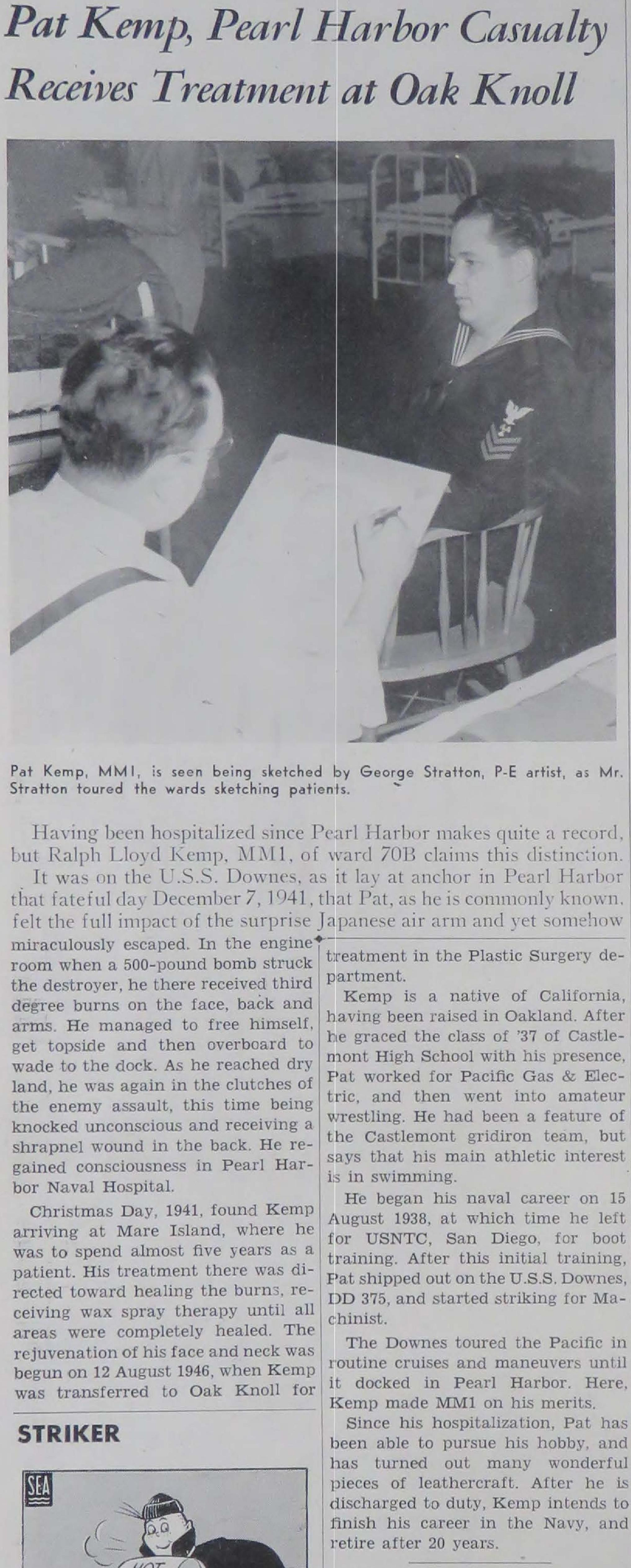 Hospital newspaper Vol. 6, No. 1, January 11, 1947 - Vol. 6, No. 25, June 28, 1947. Subjects: NH Oakland; Nurse Corps; Hospital Corps; Medical Corps; California; Dental Corps; cartoons